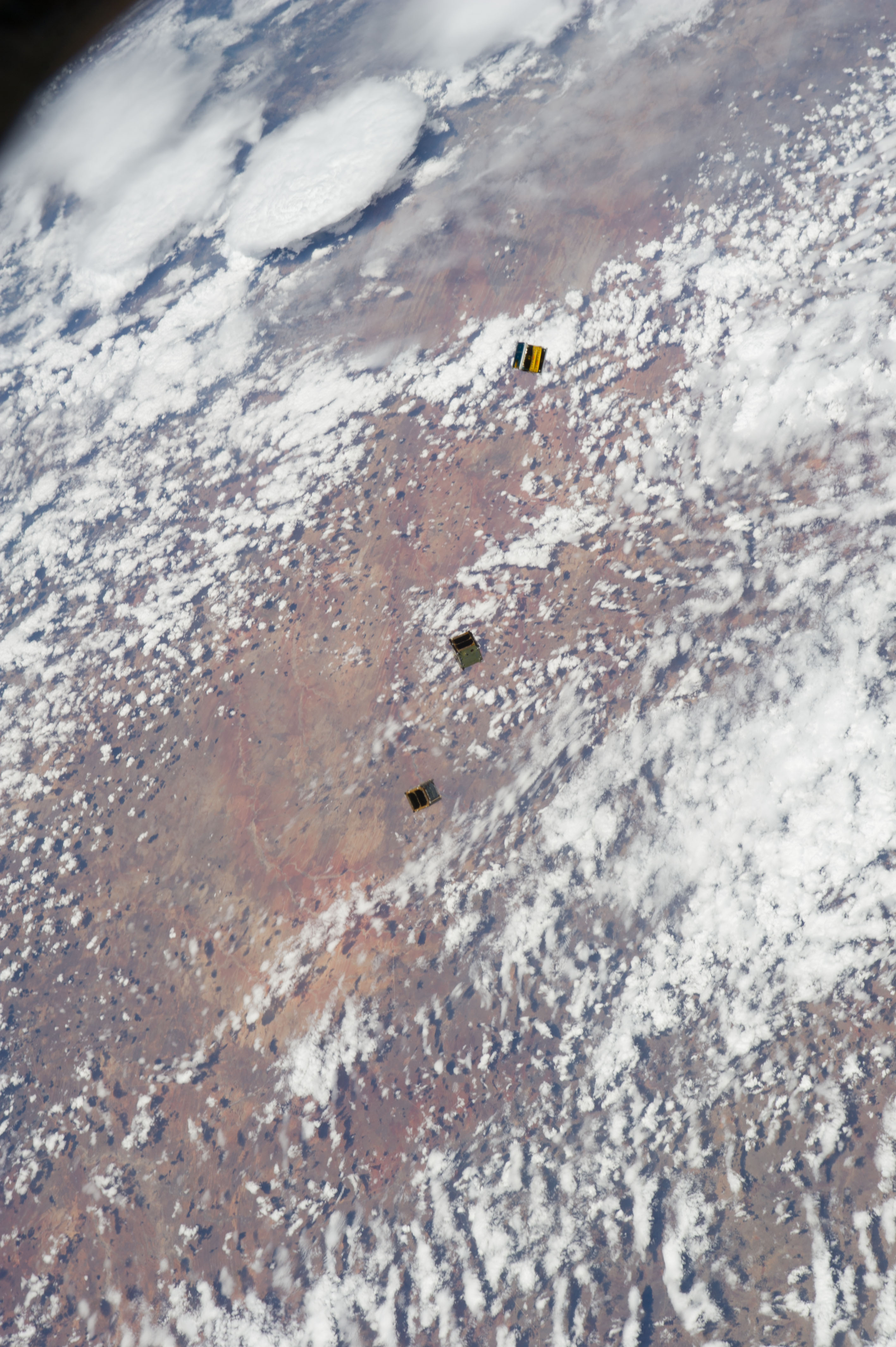 Three nanosatellites, known as Cubesats, are featured in this image photographed by an Expedition 38 crew member on the International Space Station. The satellites were released outside the Kibo laboratory using a Small Satellite Orbital Deployer attached to the Japanese module's robotic arm on Nov. 19, 2013. Japan Aerospace Exploration Agency astronaut Koichi Wakata, flight engineer, monitored the satellite deployment while operating the Japanese robotic arm from inside Kibo. The Cubesats were delivered to the International Space Station Aug. 9, aboard Japan's fourth H-II Transfer Vehicle, Kounotori-4.